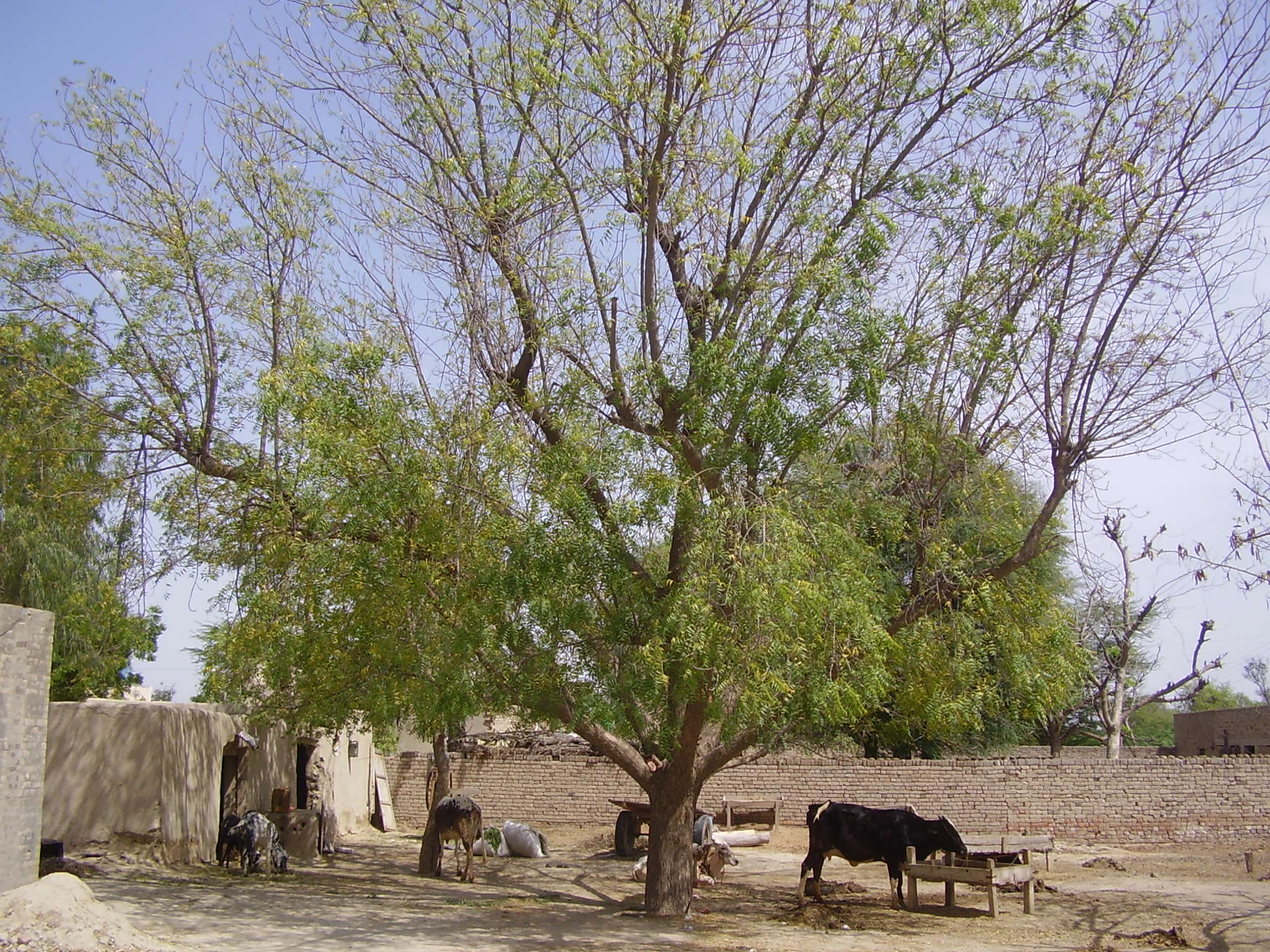 Animal section of a rural Punjabi home under neem tree